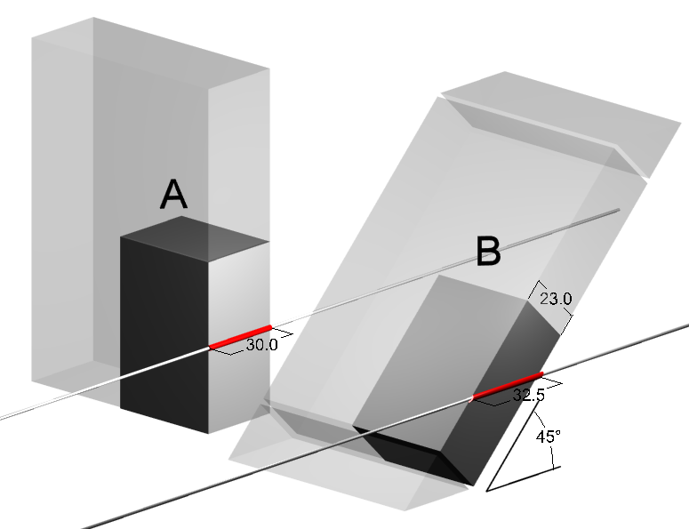 Author Doug Hatfield, released into public domain